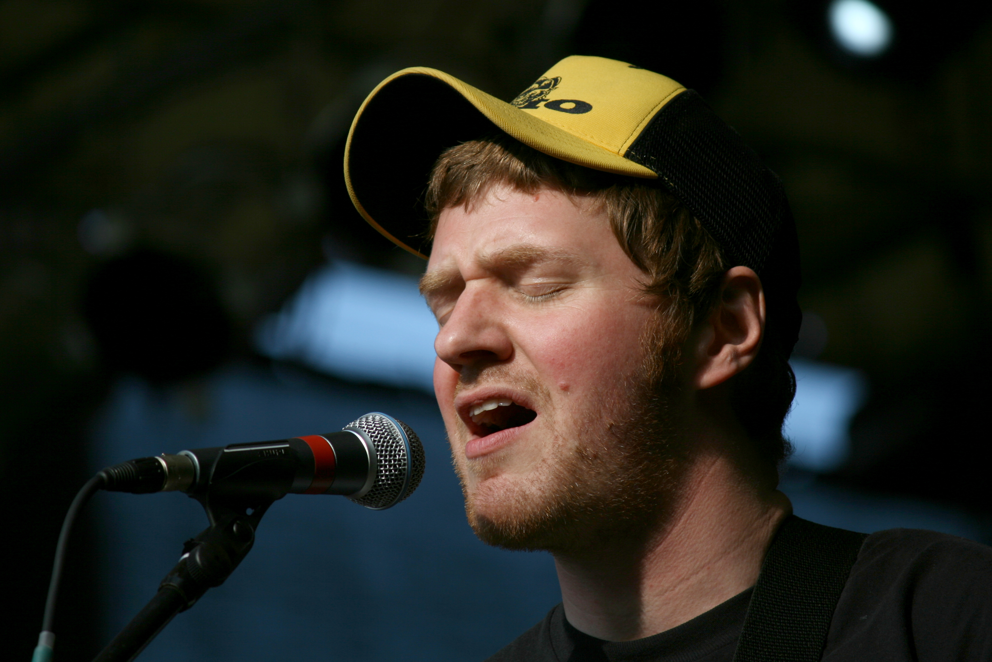 Felix Gebhard, German musician and photographer, at the Berlin 08 festival